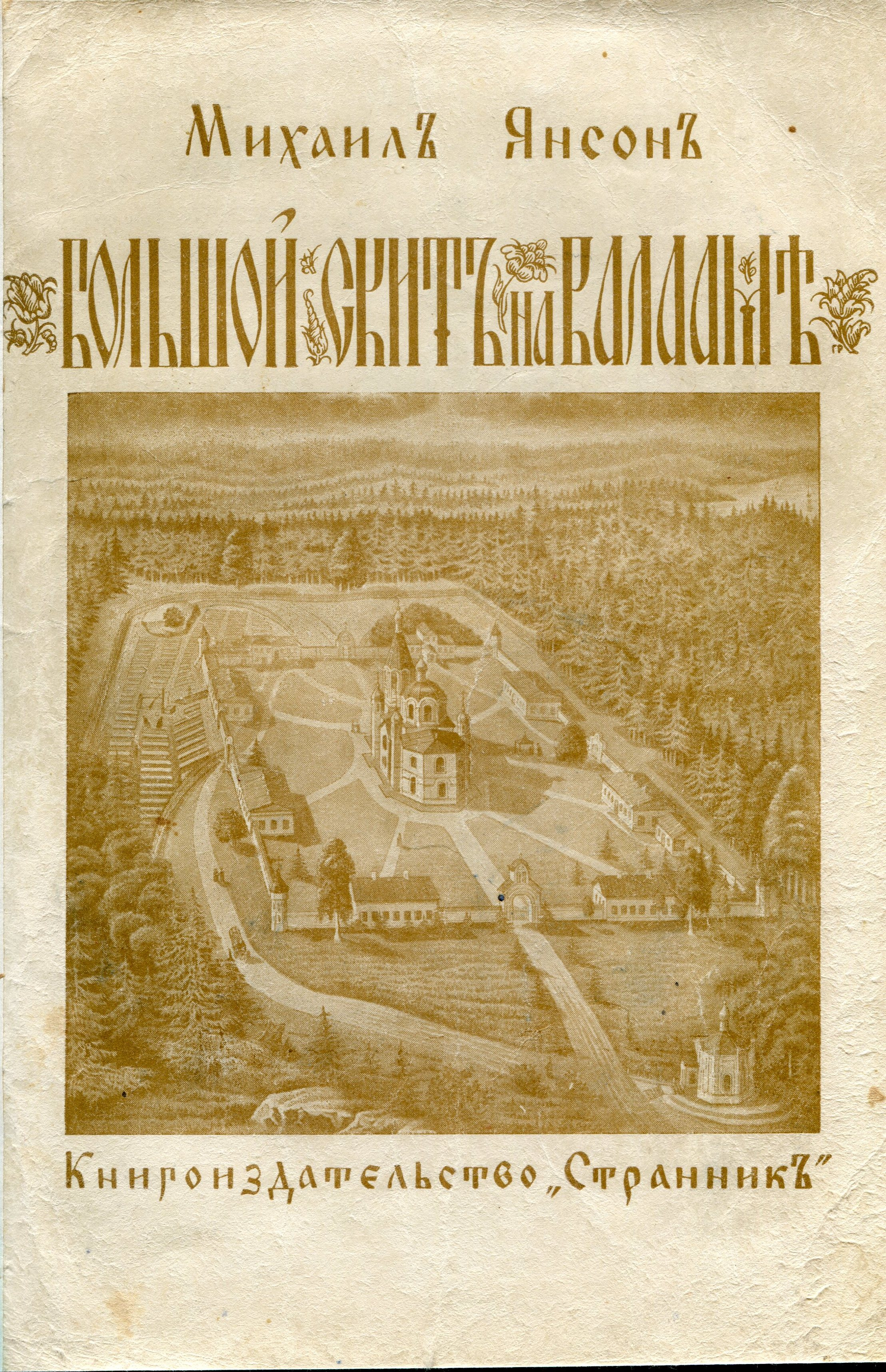 The cover of the first edition of M.A.Janson's book "The Great Skete on Valaam" (Tallinn, 1940)